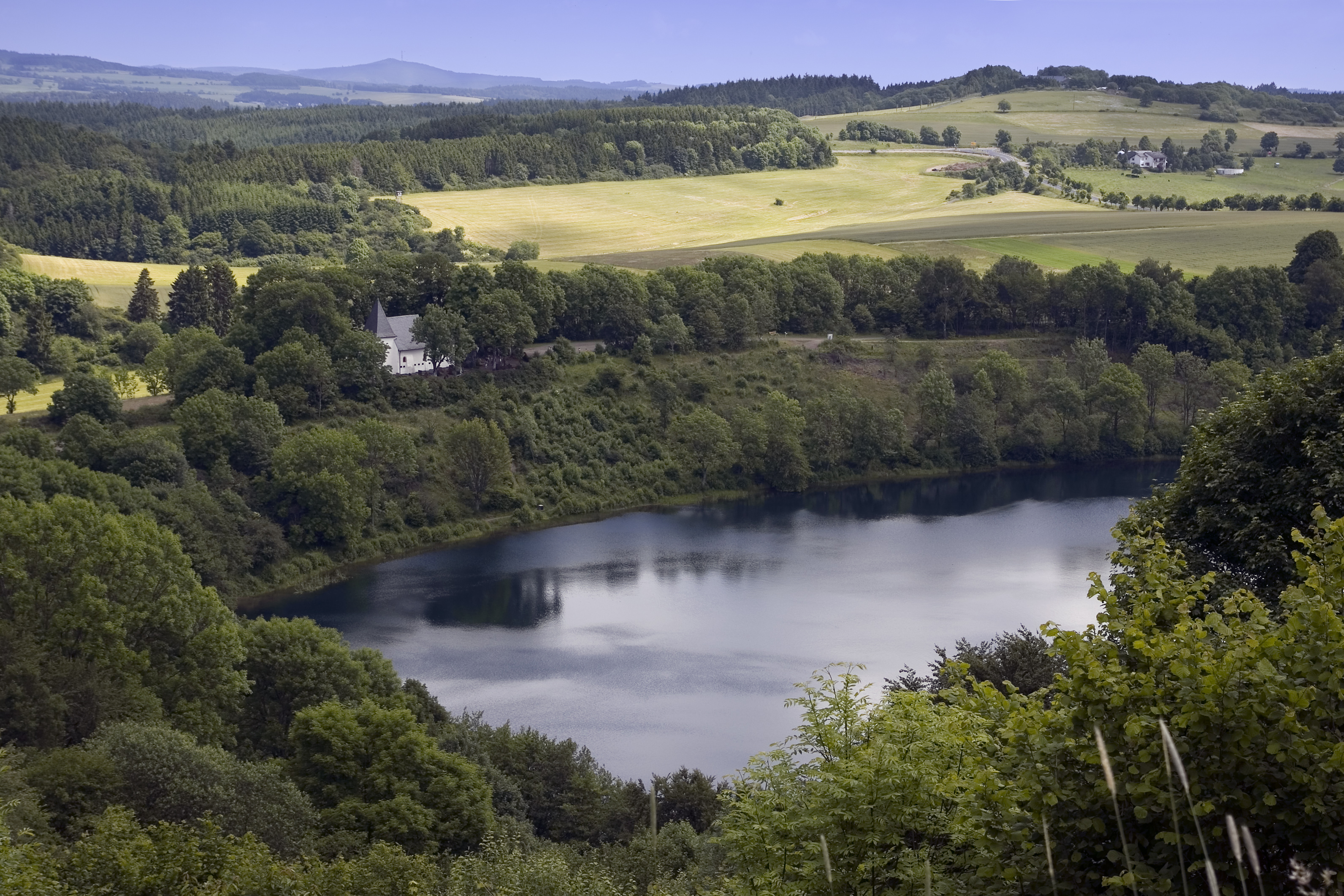 Weinfelder Maar and the Weinfeld Chapel